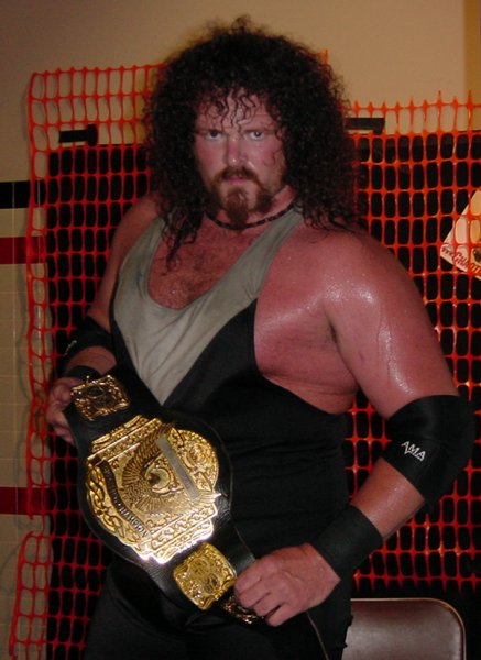 Rick Fuller after winning the Chaotic Wrestling Heavyweight Championship in May 2001. Photo by Seth Holmes, Copyright 2001.